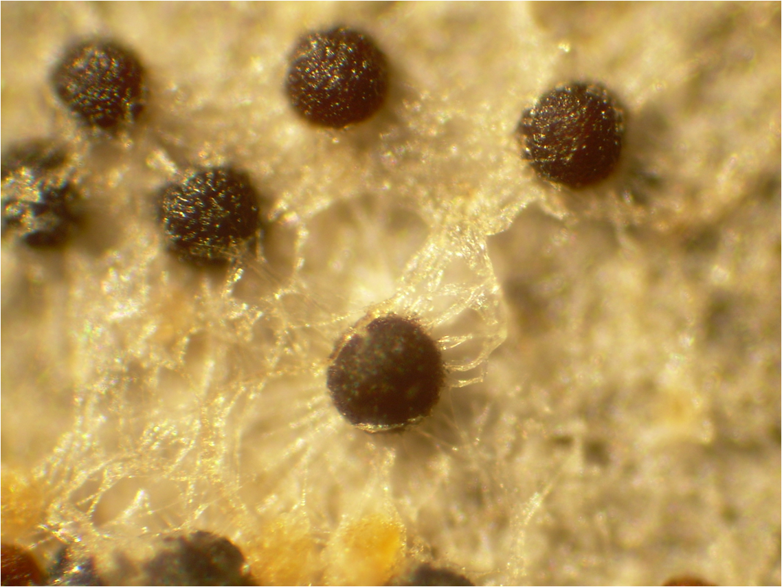 Uncinula adunca (anamorph Oidium) cleistothecium magnified 40X. Identified using Barnett, H. L. & Hunter, B. B. (1998) Illustrated Genera of Imperfect Fungi. APS Press: St. Paul, MN; pp. 110–1 ISBN 0-89054-192-2 and Hanlin, R. T. (2001) Illustrated Genera of Ascomycetes, Volume I. APS Press: St. Paul, MN; pp. 36–7 ISBN 0-89054-107-8. Recovered from quaking aspen (Populus tremuloides Michx.). Host status confirmed using Farr, D. F., Bills, G. F., Chamuris, G. P., & Rossman, A. Y. (1995) Fungi on Plants and Plant Products in the United States. APS Press: St. Paul, MN; pp. 498–505 ISBN 0-89054-099-3.